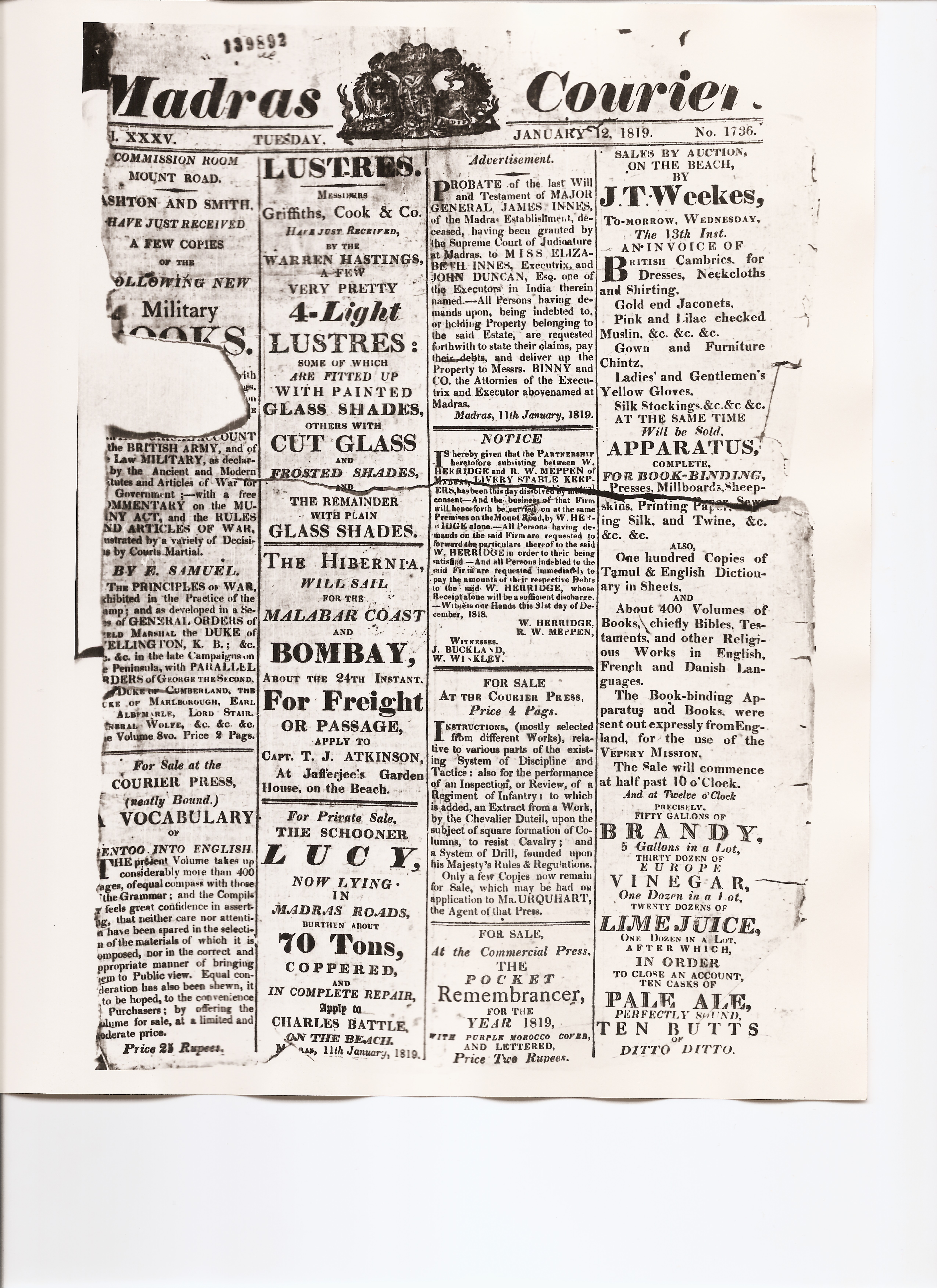 Madras Courier newspaper 12th Jan 1819